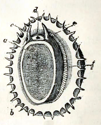 View on the animal of the common rock limpet Patella vulgata Linnaeus, 1758